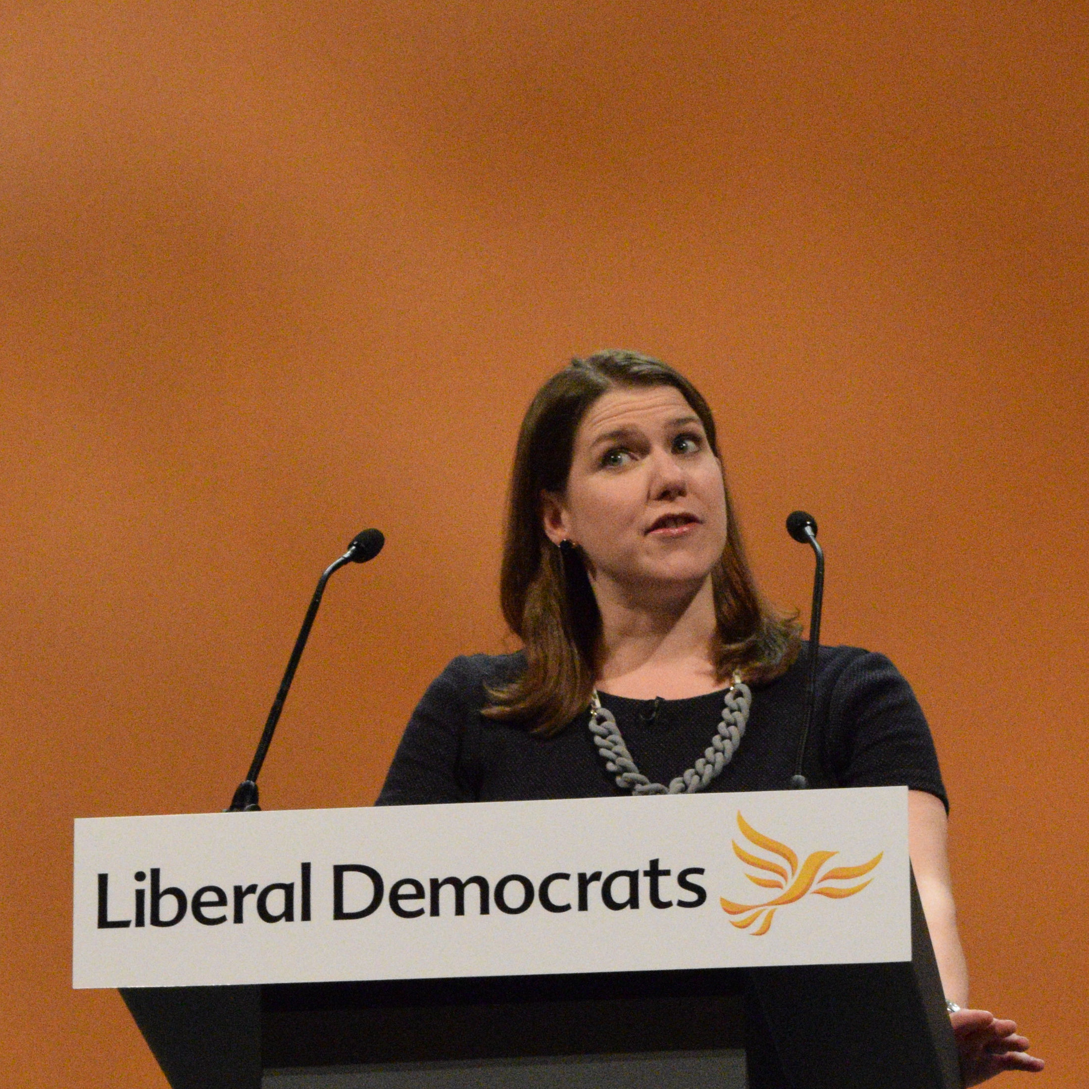 Jo Swinson, MP addressing a Liberal Democrat conference in the Bournemouth International Centre in September 2017